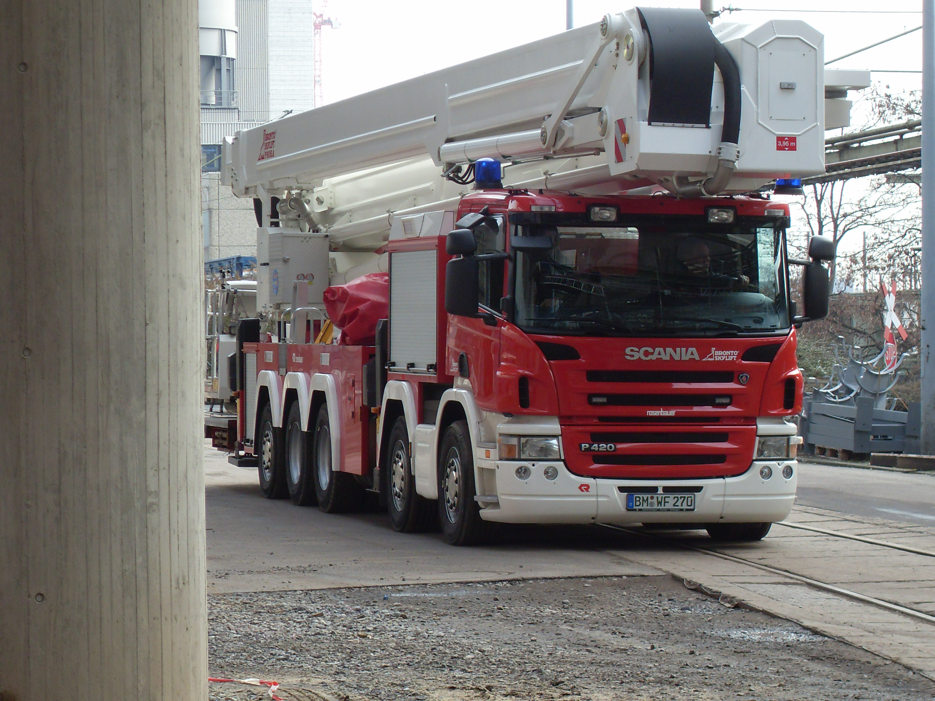 Bronto Skylift F 90 HLA RWE Power, Cologne. Scania P420 truck.